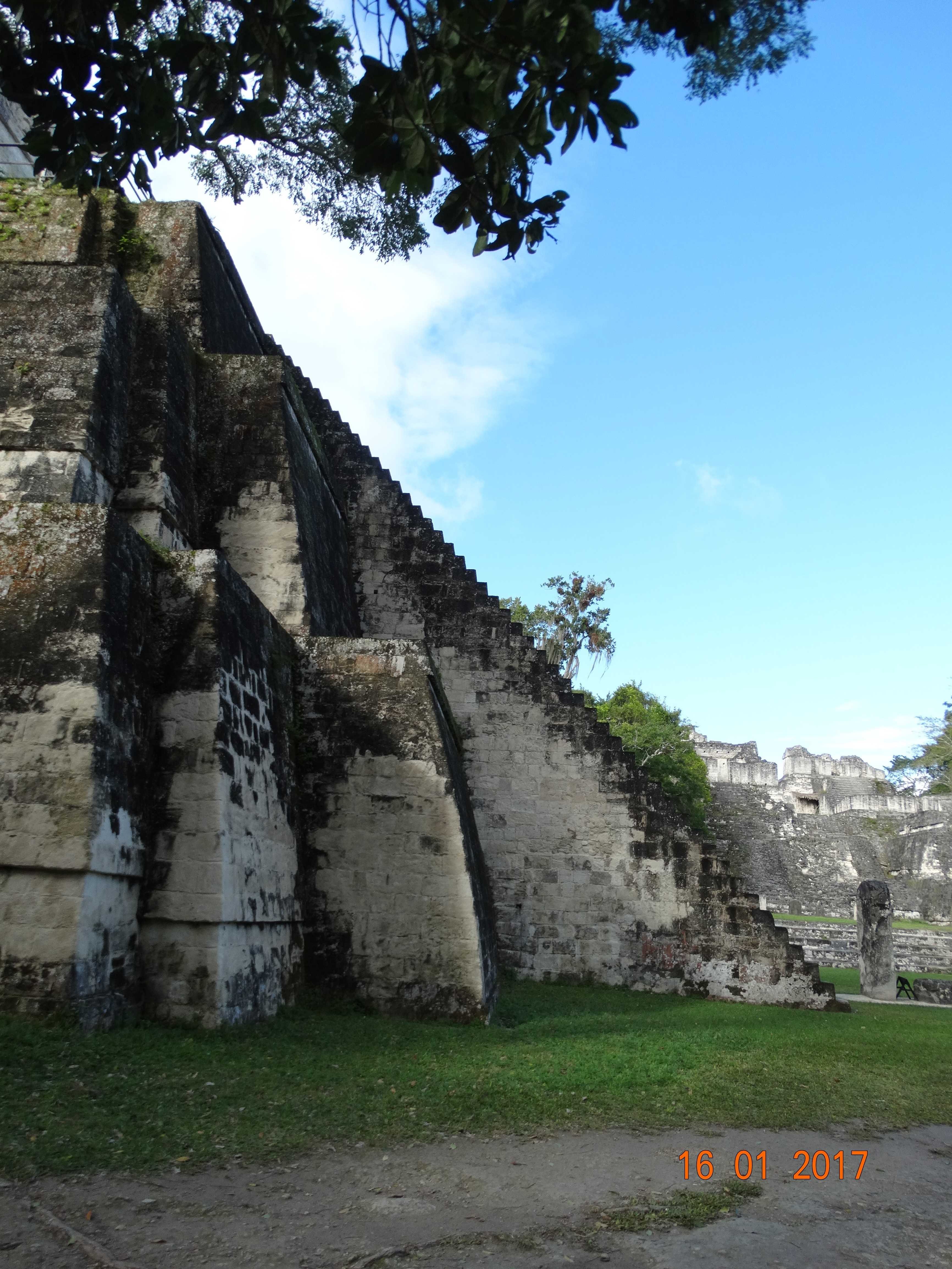 pyramids in jungles